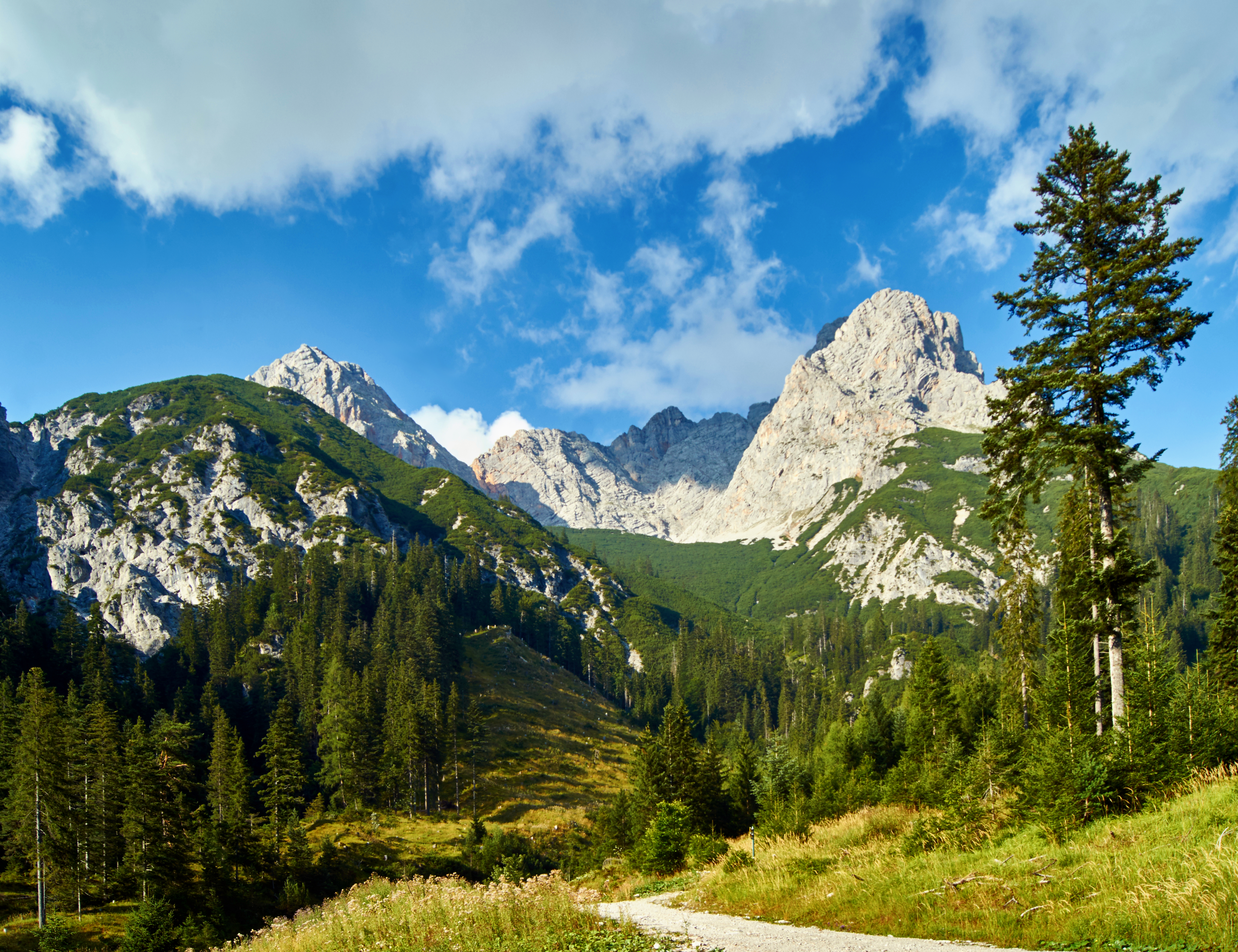 Mountain-subrange of Breithorn group (Steinernes Meer) with Persailhorn and Mitterhorn. Saalfelden, Austria. This media shows the nature reserve in Salzburg with the ID NSG00012.